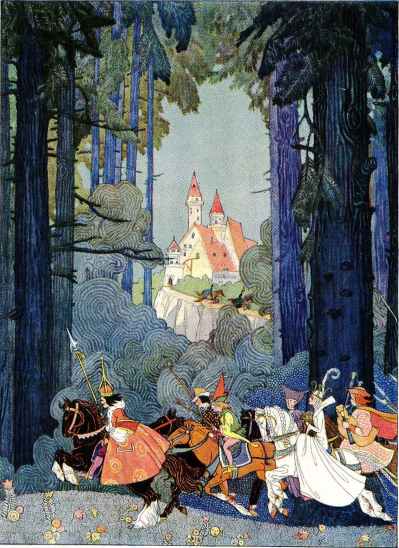 Frontpiece of the book 'The Enchanted Forest' by William Bowen, illustrated by Maud and Miska Petersham, MacMillen Co, NY, 1920